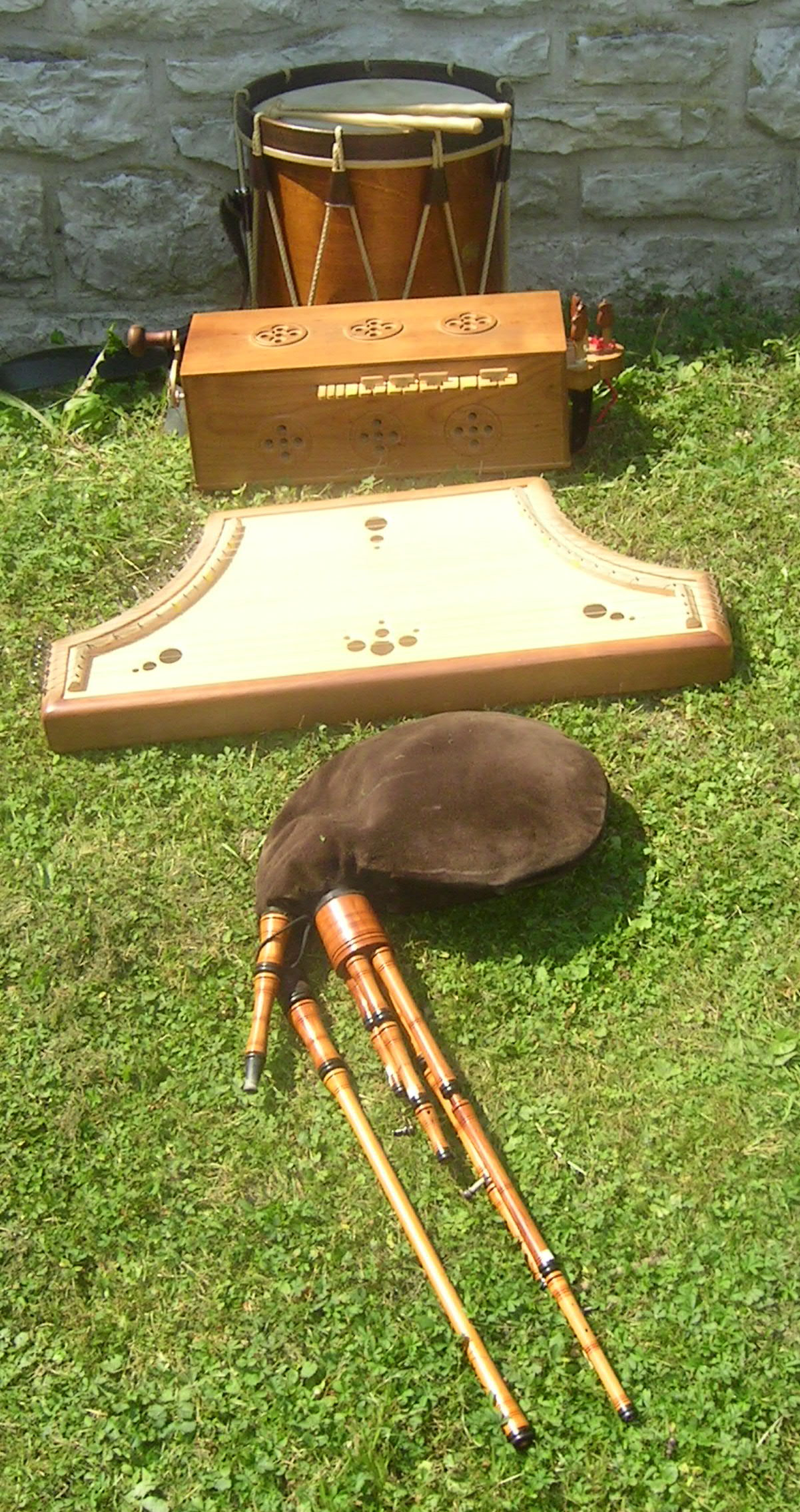 Schnurtrommel (rope-tensioned drum) from the Renaissance, Gothic hurdy-gurdy, Medieval psaltery, Dudey (softly sounding bagpipe, Hümmelchen in today) from the Renaissance